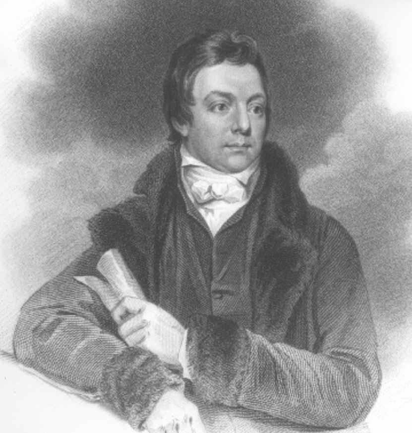 Henry Salt (1780-1827), English artist, traveler, diplomat, and Egyptologist.